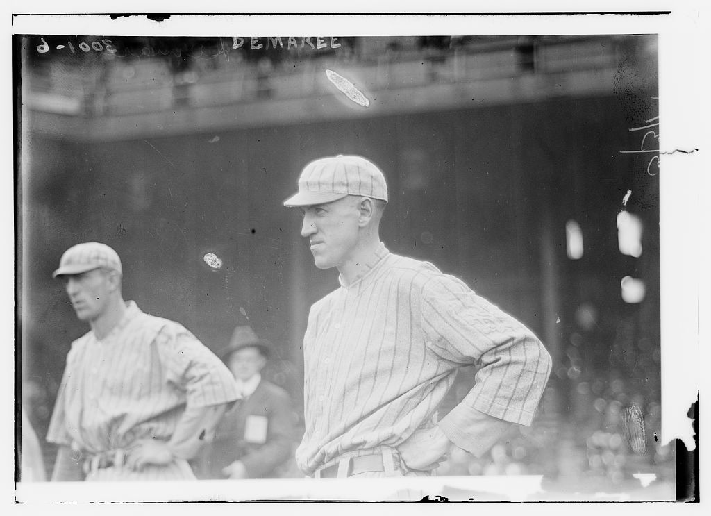 Bain News Service,, publisher. Al Demaree, New York NL (baseball) [1914] 1 negative : glass ; 5 x 7 in. or smaller. Notes: Original data provided by the Bain News Service on the negatives or caption cards: Demaree. Corrected title and date based on research by the Pictorial History Committee, Society for American Baseball Research, 2006. Forms part of: George Grantham Bain Collection (Library of Congress). Format: Glass negatives. Repository: Library of Congress, Prints and Photographs Division, Washington, D.C. 20540 USA, General information about the Bain Collection is available at Persistent URL: Call Number: LC-B2- 3001-6